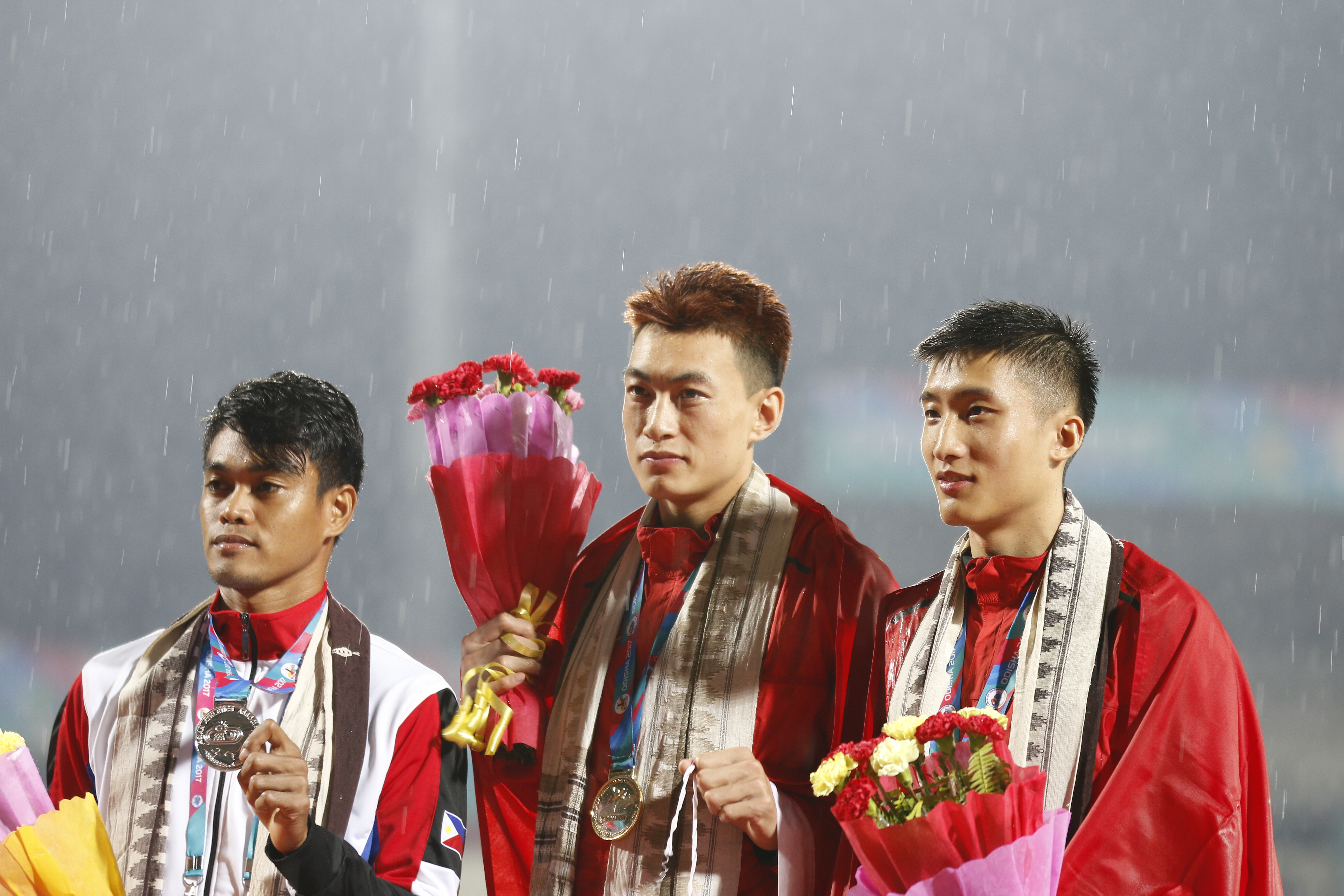 Athletes during 22nd Asian Athletics Championships in Bhubaneswar.